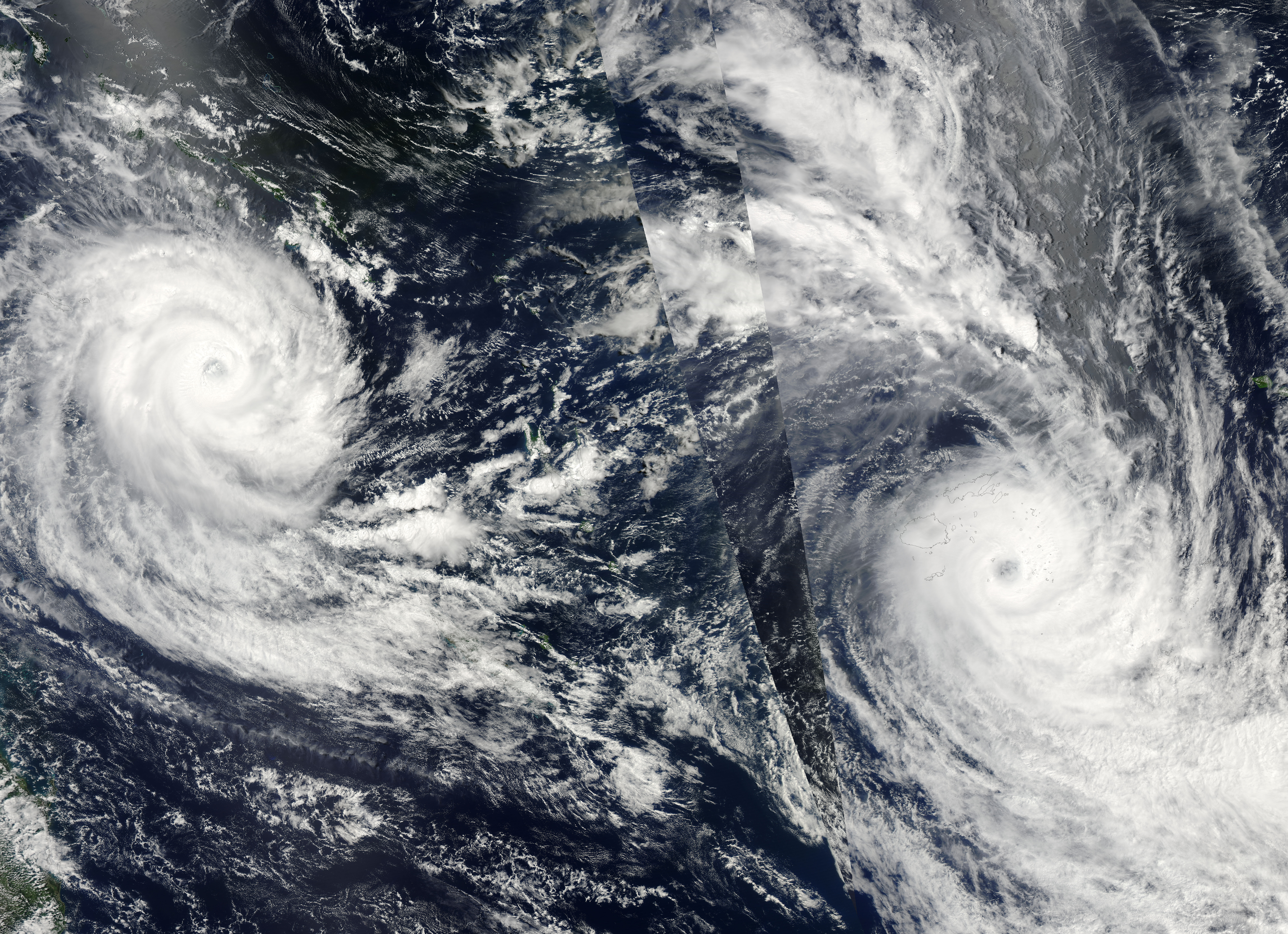 Tropical Cyclones Tomas and Ului in the southwestern Pacific Ocean.